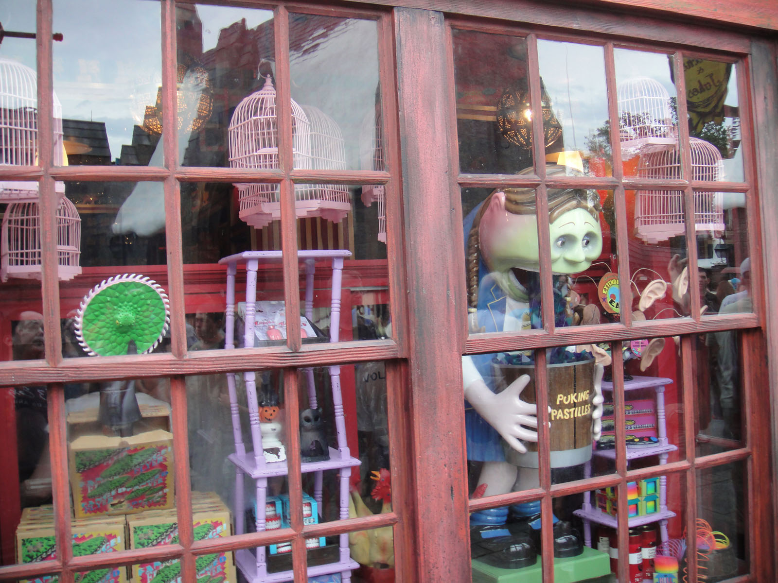 Wizarding World of Harry Potter - Puking Pastilles display in Zonkos Joke Shop window